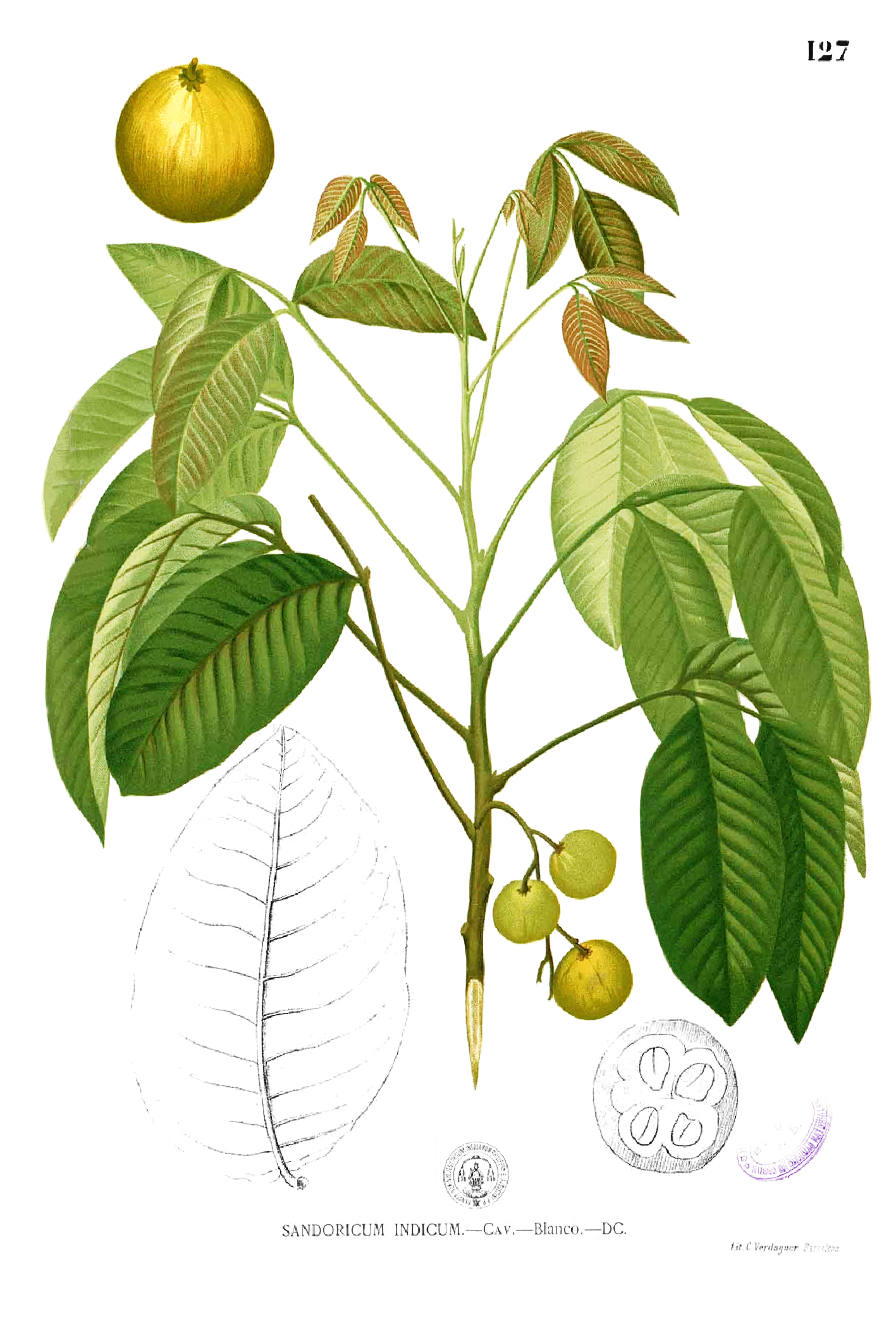 Plate from book